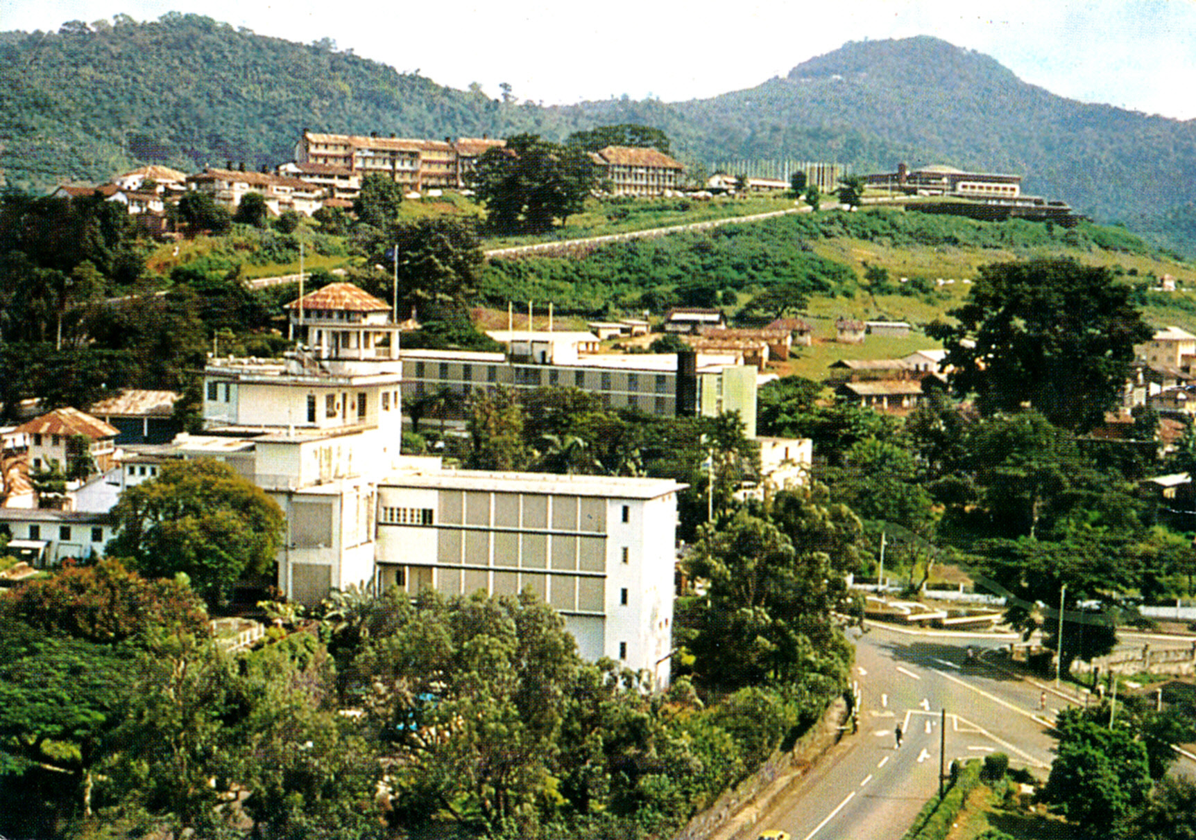 Postcard of Fort Thornton, Freetown, Sierra Leone